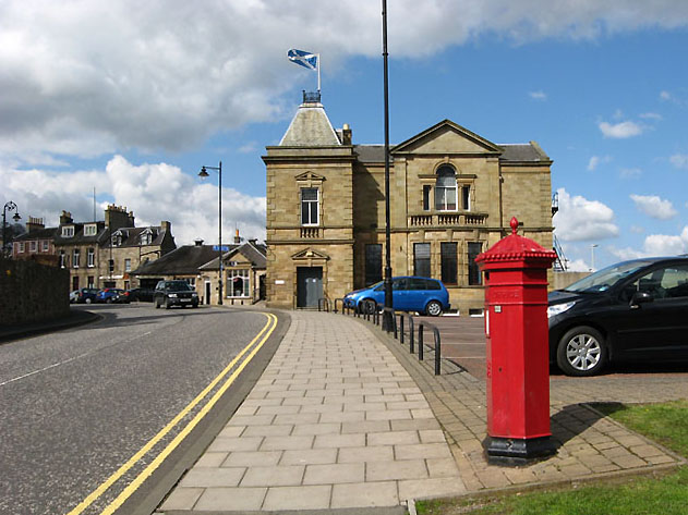 Abbey Place, Jedburgh The building with the saltire flag is the town hall, erected in 1900. A Victorian postbox is in the foreground.